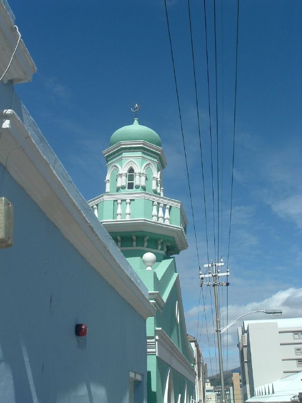 Mint coloured Mosque in the Bo-Kaap, Cape Town, South Africa